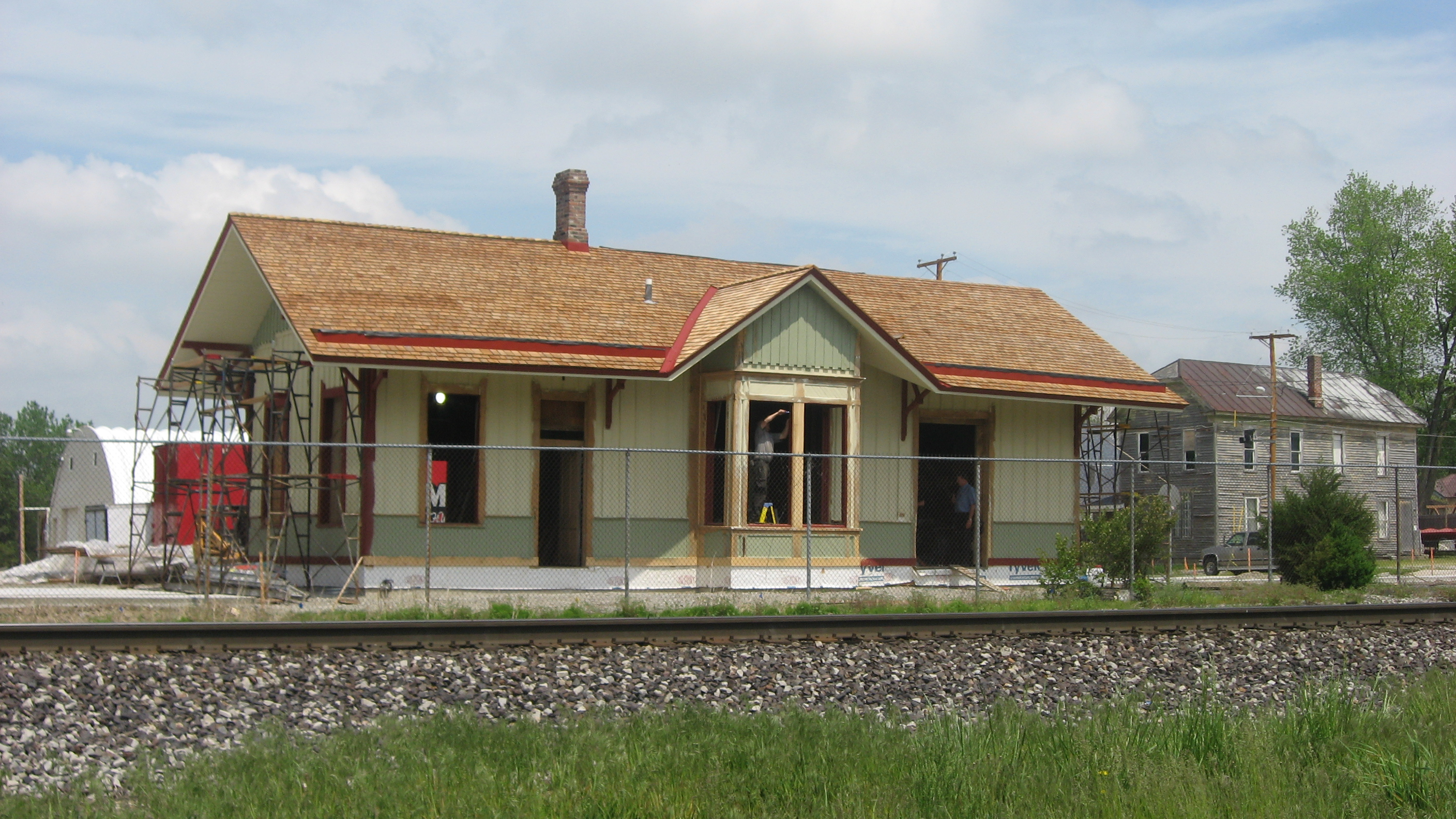 Southern side of the Wabash Railroad Depot, located at 616 W. Superior Street in New Haven, Indiana, United States. Built in 1890, it is listed on the National Register of Historic Places.